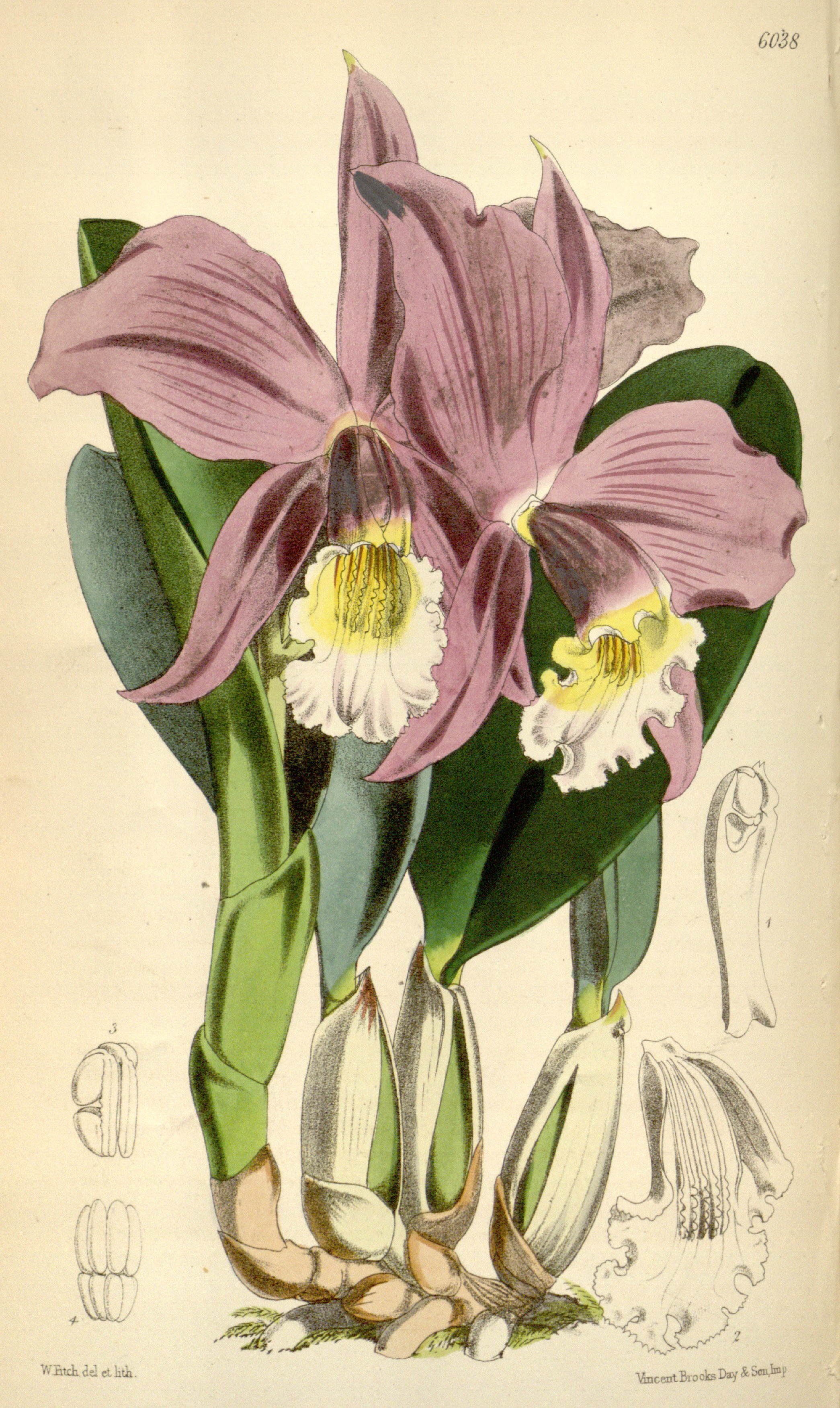 Illustration of Sophronitis jongheana (as syn. Laelia jongheana, spelled by Hooker as Laelia jonghiana"")